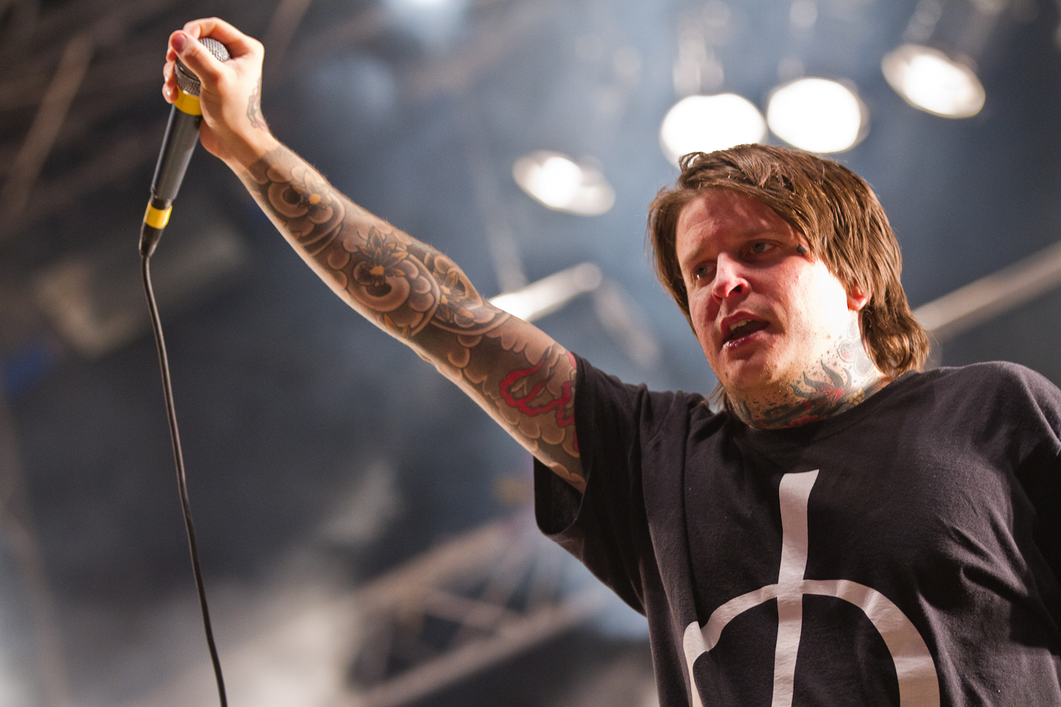 Robert Ljung of Adept at Mair1 Open Air 2013 in Montabaur